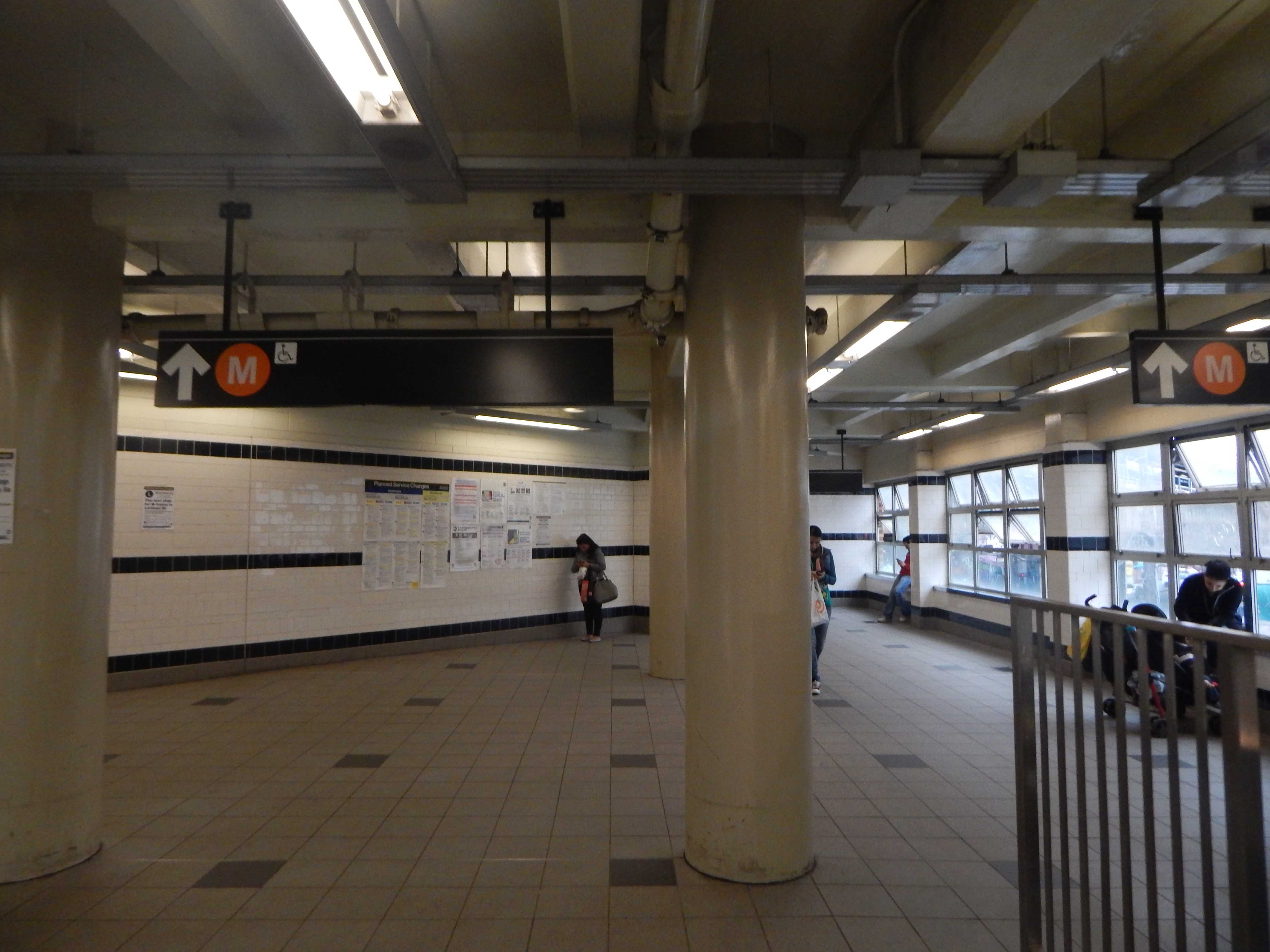 Bushwick / Ridgewood, New York